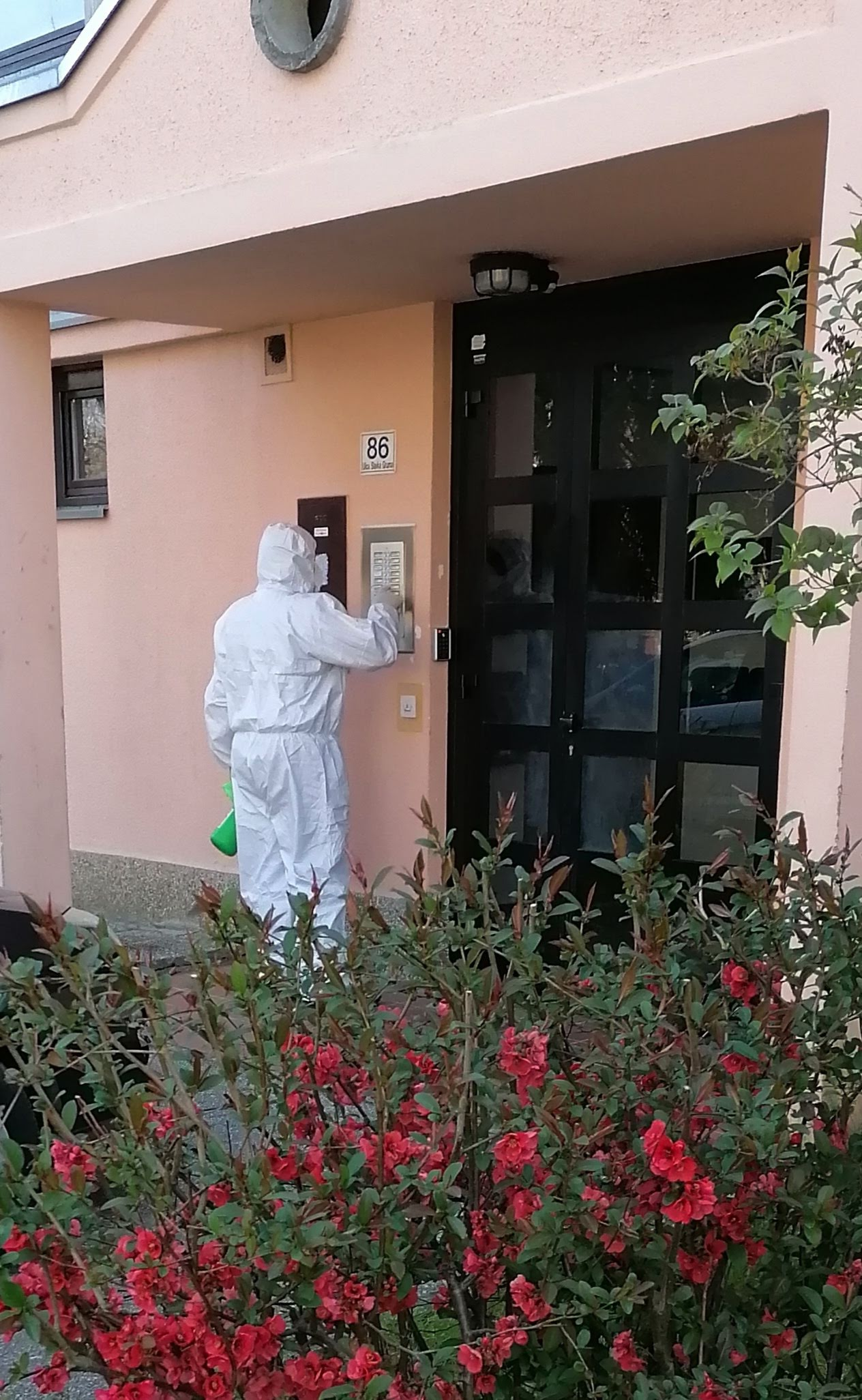 Corona Novo mesto - disinfection of multi-apartment buildings